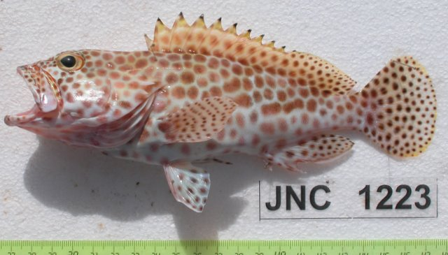 Epinephelus merra (Serranidae, Epinephelinae). Locality: Récif Toombo, off Nouméa, New Caledonia. Fork Length 195mm, Weight 105grams. Date 2004-08-10.